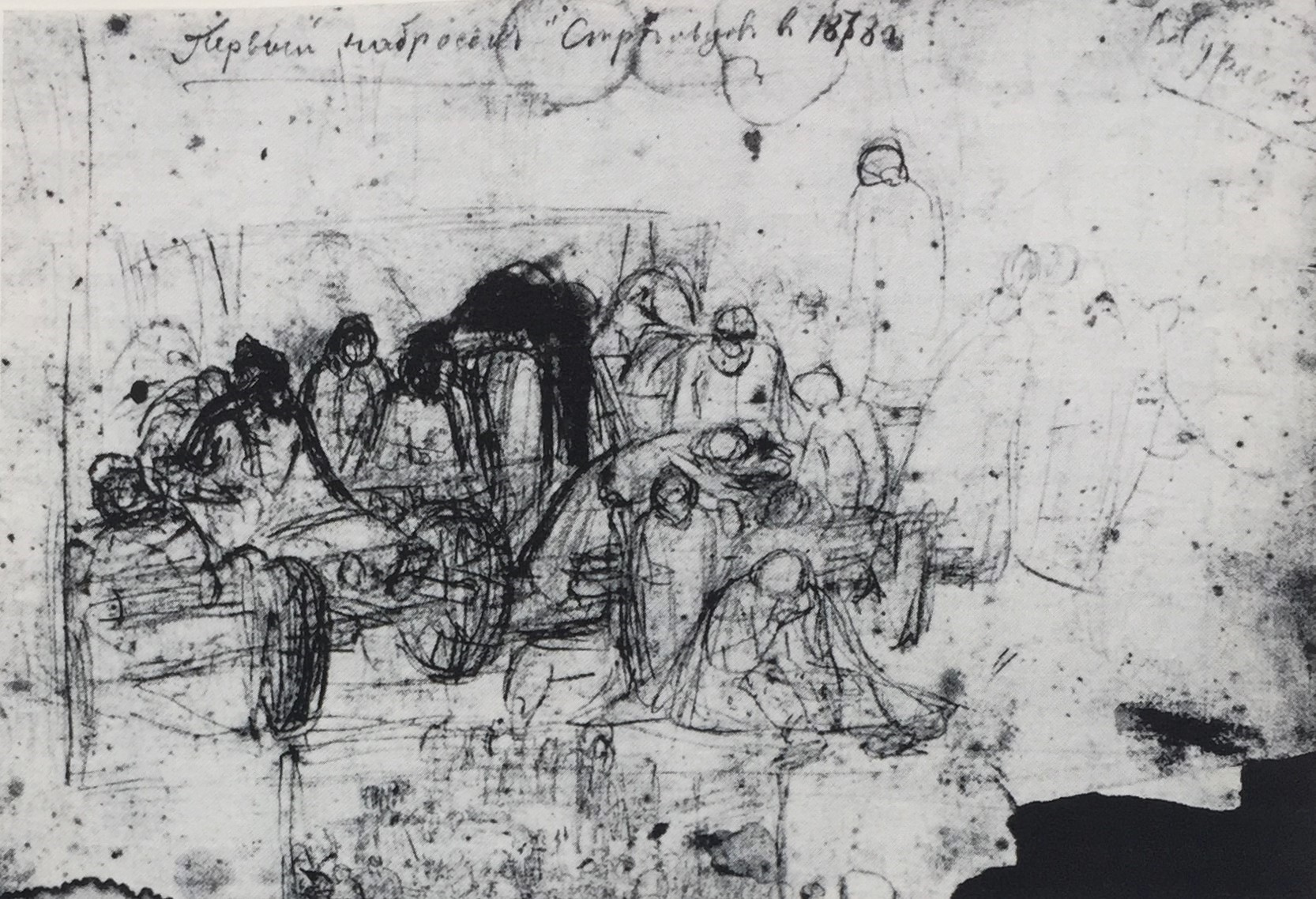 Morning of streltsy's beheading (first sketch by Vasily Surikov, 1878)